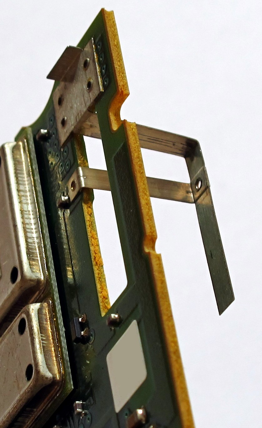 Closeup of an inverted-F Antenna for 1.9 GHz used in a DECT cordless telephone basestation